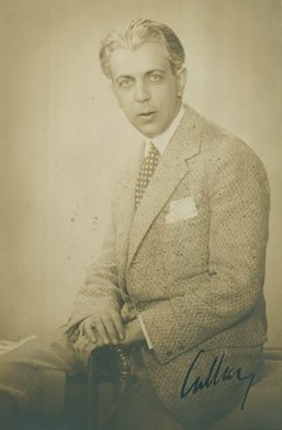 Bulgarian architect Sava Ovcharov.